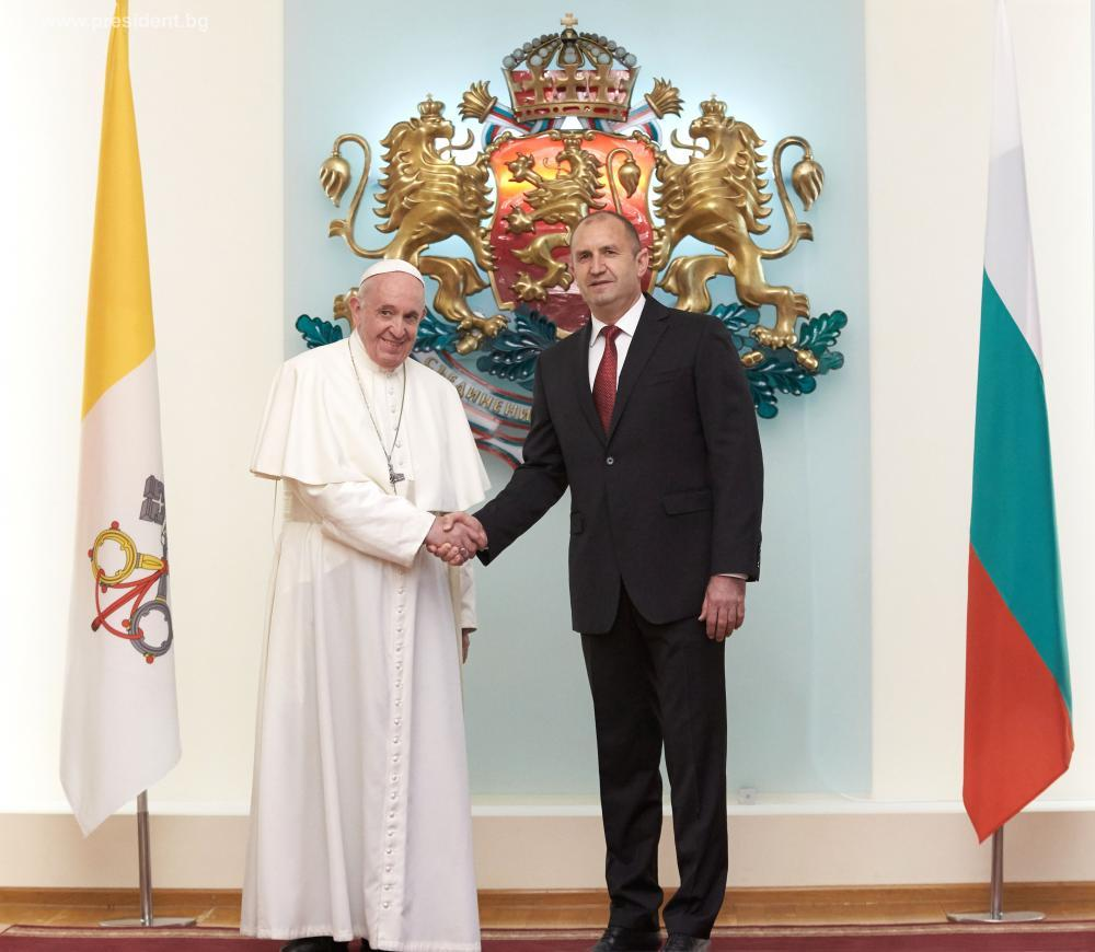 President Rumen Radev Welcomes His Holiness Pope Francis in Bulgaria.